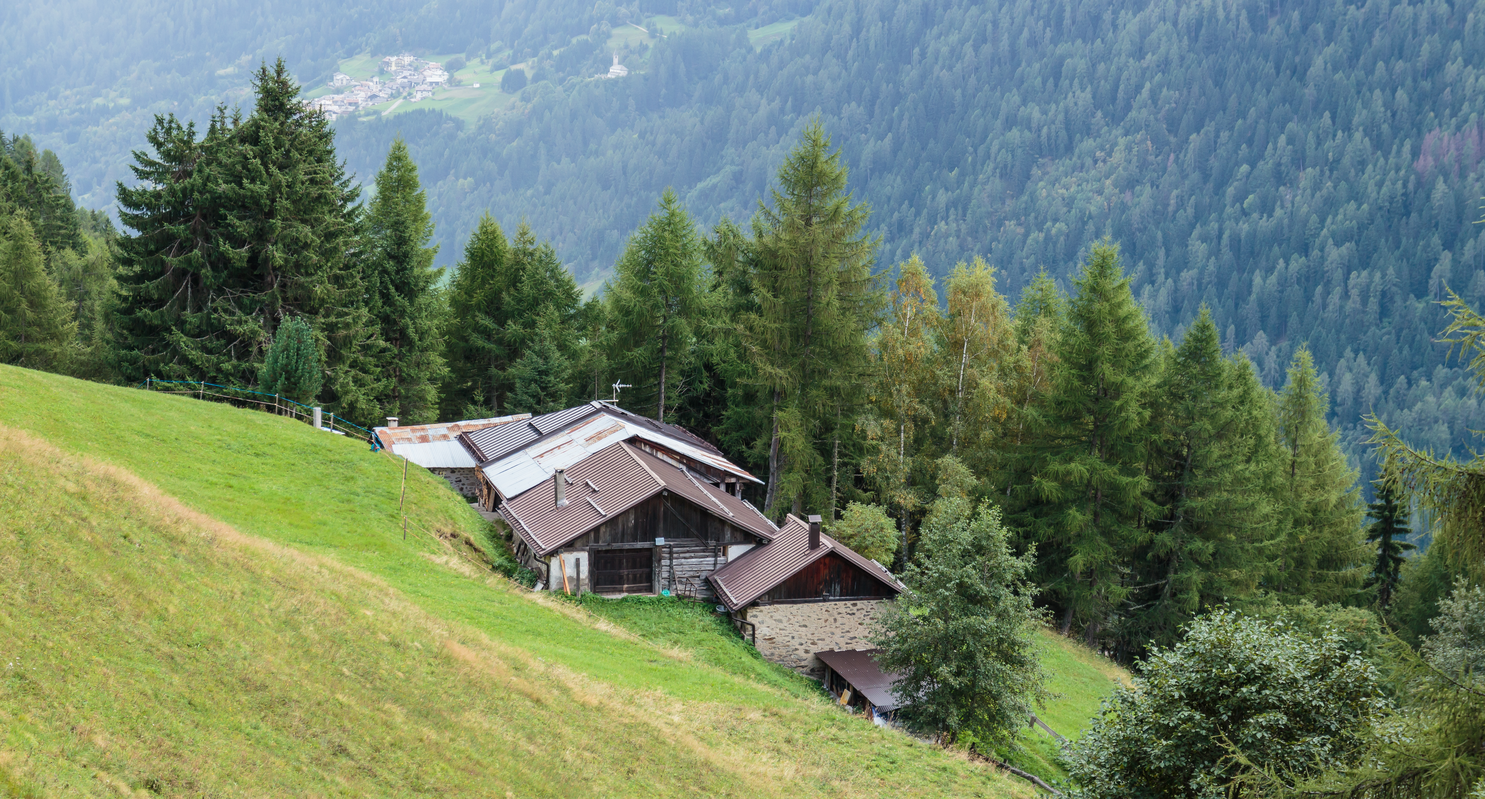 Mountain walk from Cogolo di Peio naar M.ga Levi (2015 m) in the Stelvio National Park (Italy). Settlement above Cogolo.